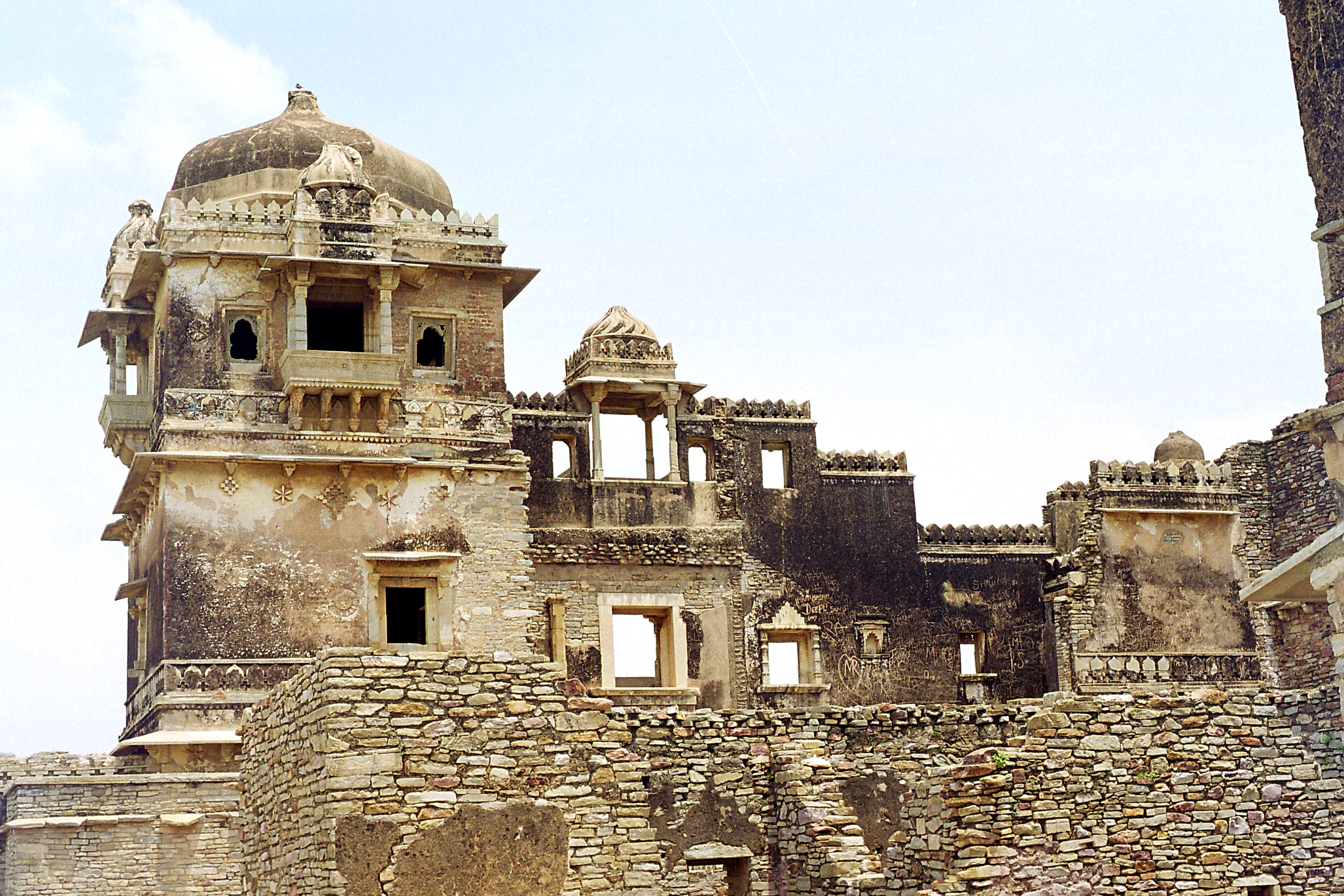 Rana Kumbha Palace, Chittorgarh, Rajasthan, India